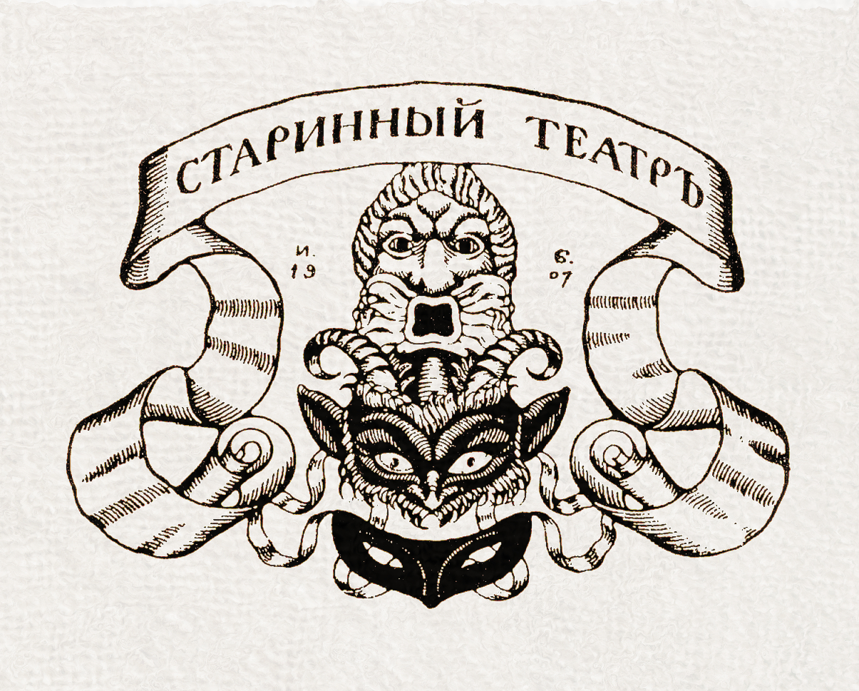 I. Bilibin. Emblem of St-Peterburg's theatre - "Syarinnij Teatr" (The Ancient Theatre). 1907